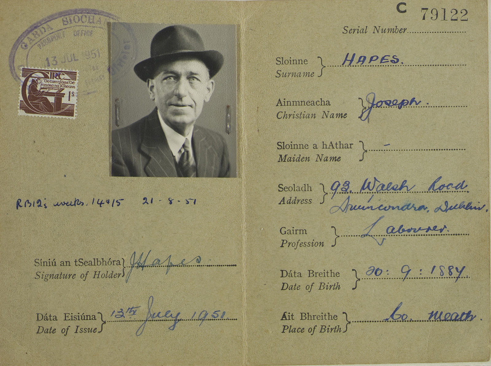 Joseph Heapes was my father in law. He joined the Royal Irish Rifles in 1906 and stayed until 1913. In that period he was posted in India and Burma. After that he worked in the Slieve Russell but he rejoined the Royal Irish Rifles in 1914 and went to France. Joseph was a prisoner of war in Limburg. He wrote to his sister Teresa, who worked as a housemaid in Dublin. She encouraged her co-workers to write to the prisoners, and one of them, Mary Fearon a cook from Dundalk, wrote to Joeseph. He became pen pals with Mary and sent her letters and a photo of himself. He came home in 1919 and they married around1920/21, having met at first only by letter. Joseph was also a prisoner of war in Linburg when Roger Casement tried to enlist Irishmen to fight against the British Army. Over the course of the war Joseph has been gassed, shot and captured.